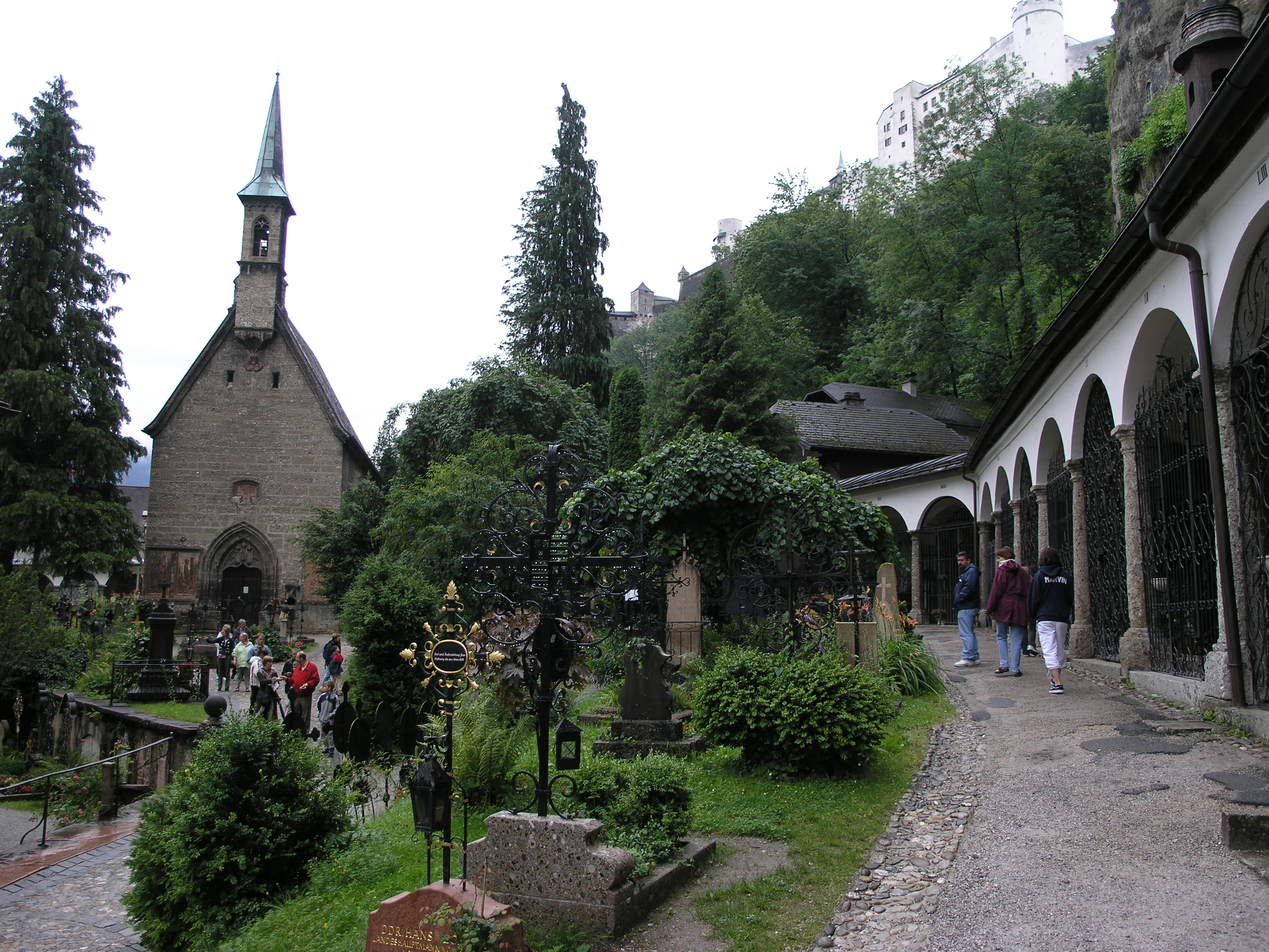 St. Petersfriedhof (St. Peter's cemetary), Salzburg, Austria